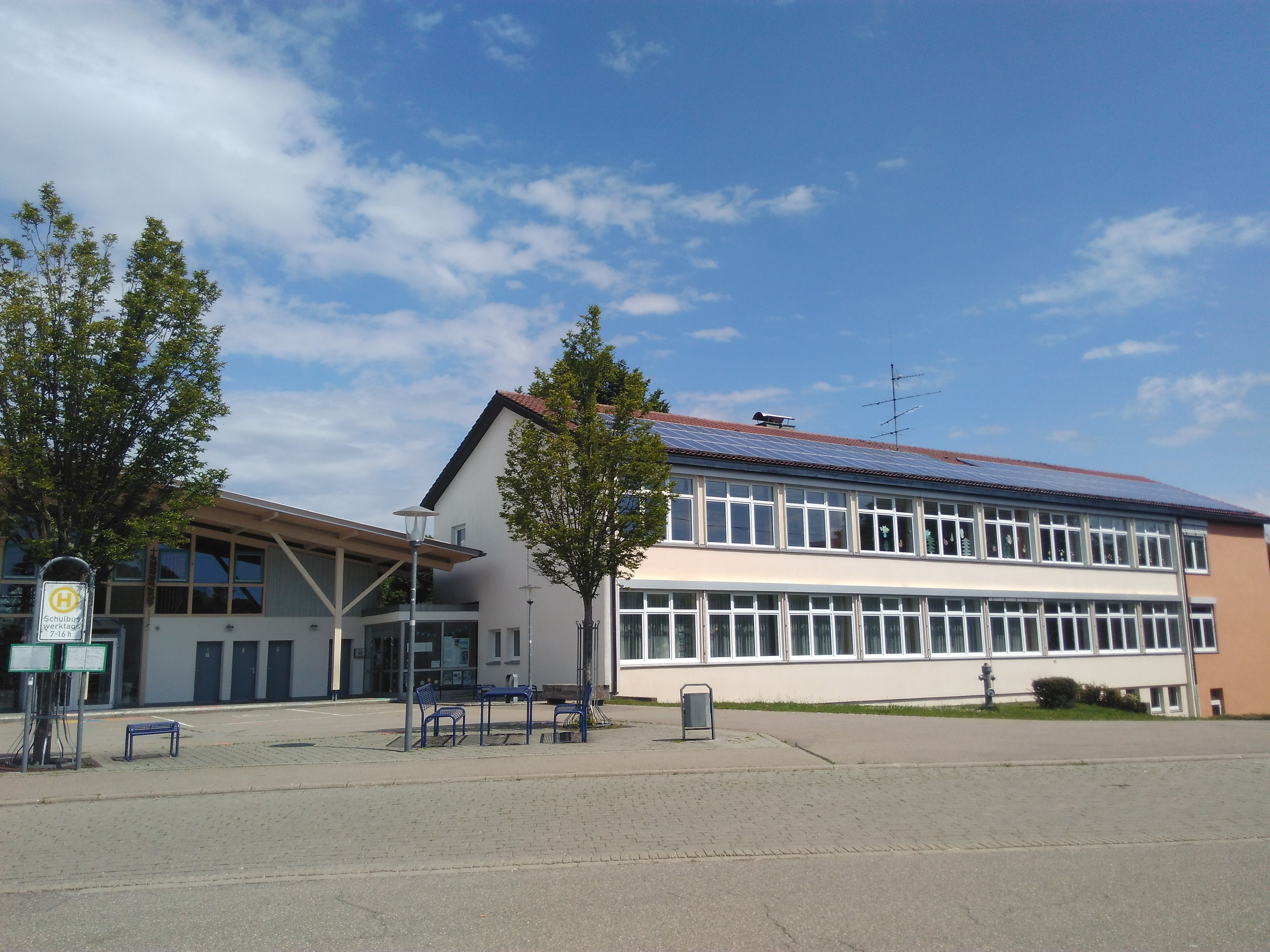 Elementary school in Wald (Hohenzollern), Germany